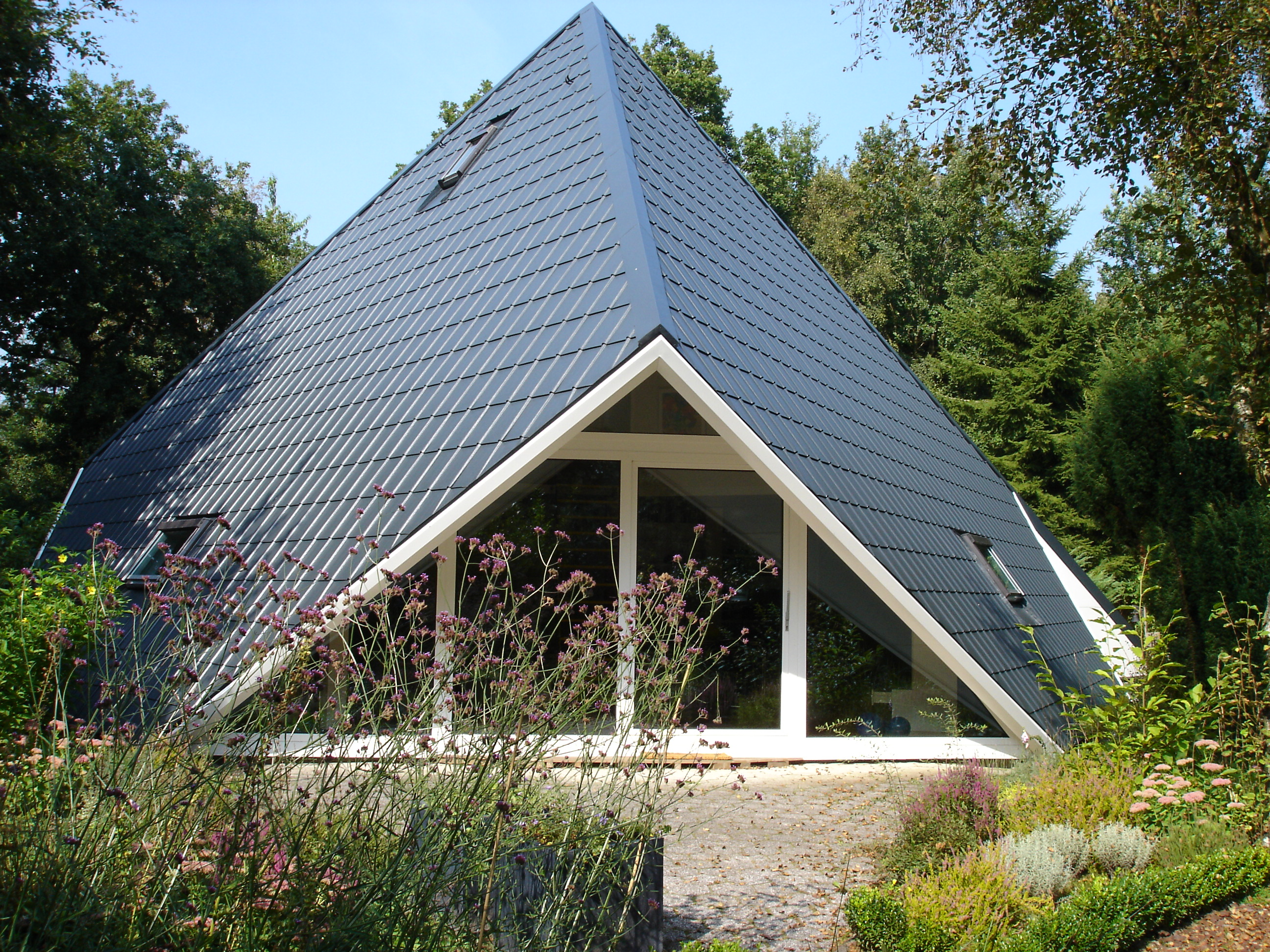 House in the village of Diever (Drenthe, Netherlands) designed by architect Peter Gerssen